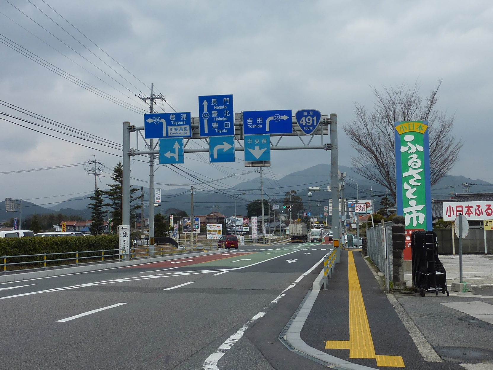 The National Route 491 in Kikugawa-cho, Shimonoseki City, Yamaguchi Prefecture, Japan.